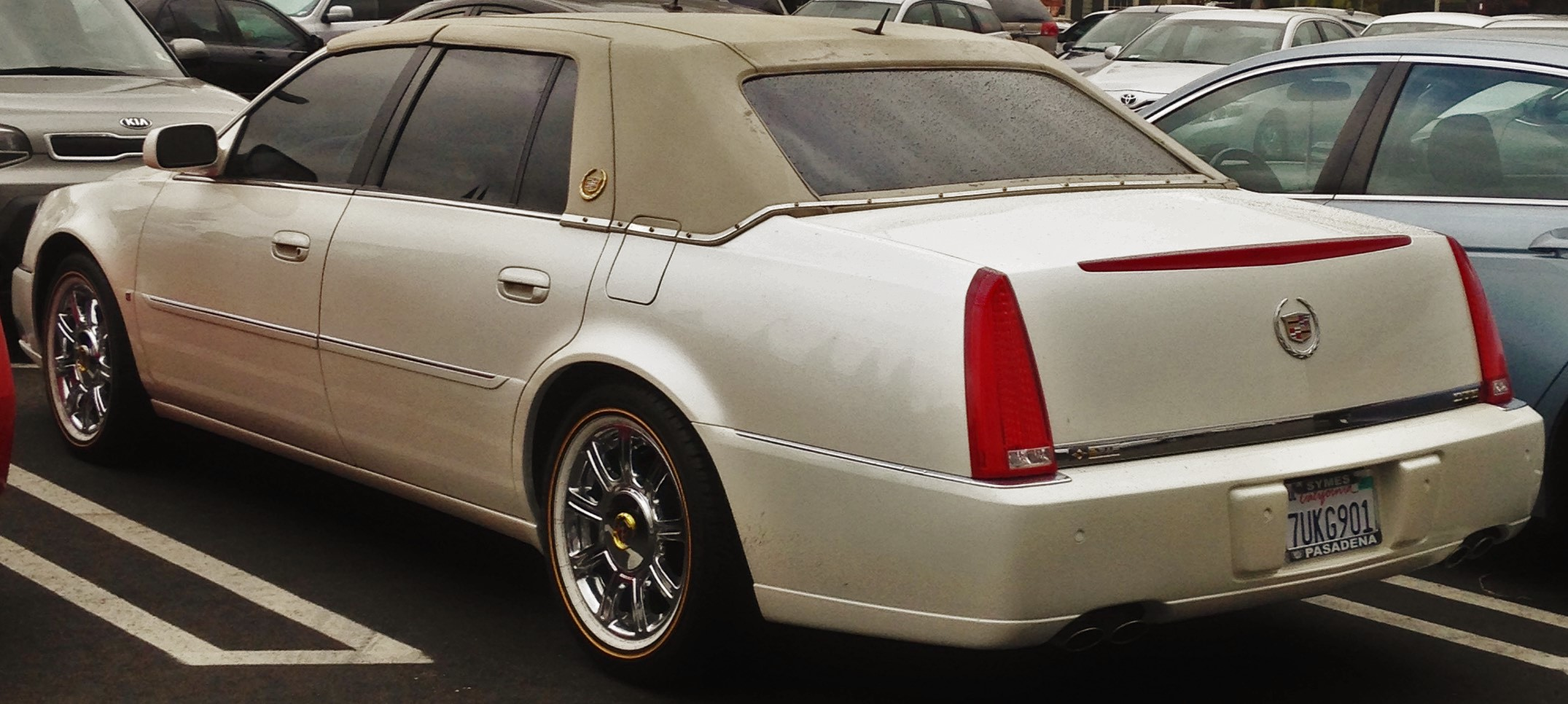 Cadillac DTS touring sedan with chrome wheels, whitewall tires, and a vynel top.